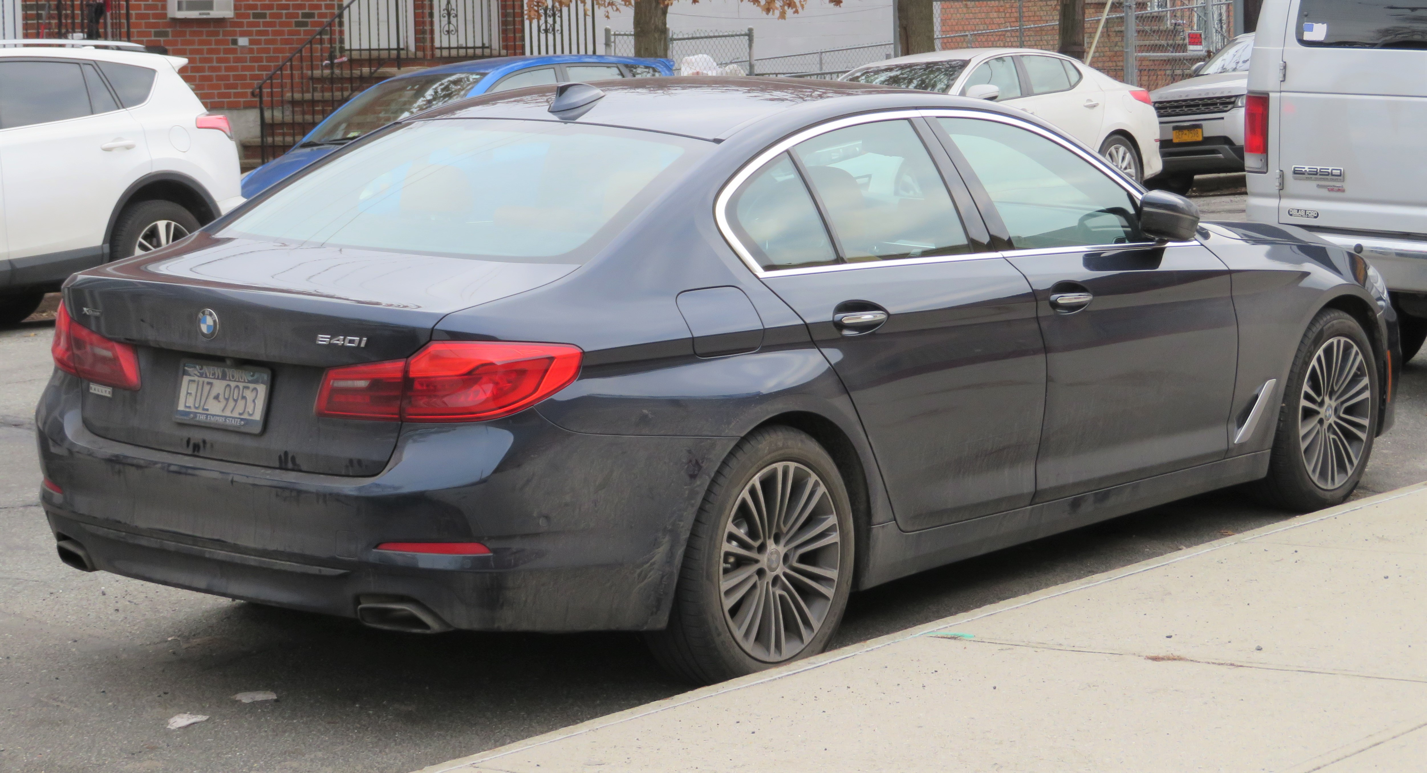 In Queens, New York.